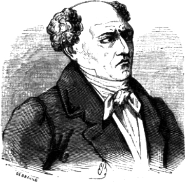 Joseph Jausion, a suspect in the murder of Antoine Bernardin Fualdès (1761–1817)